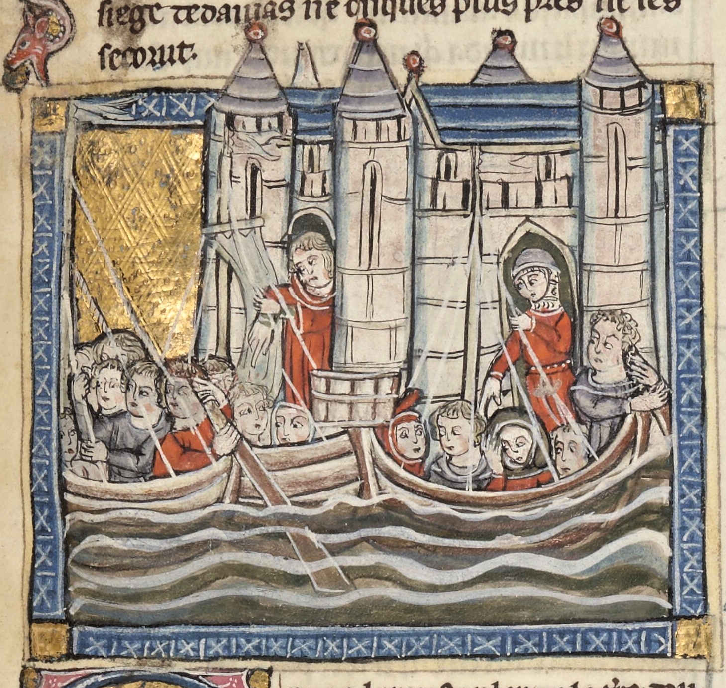 Miniature: the crusaders at Venice